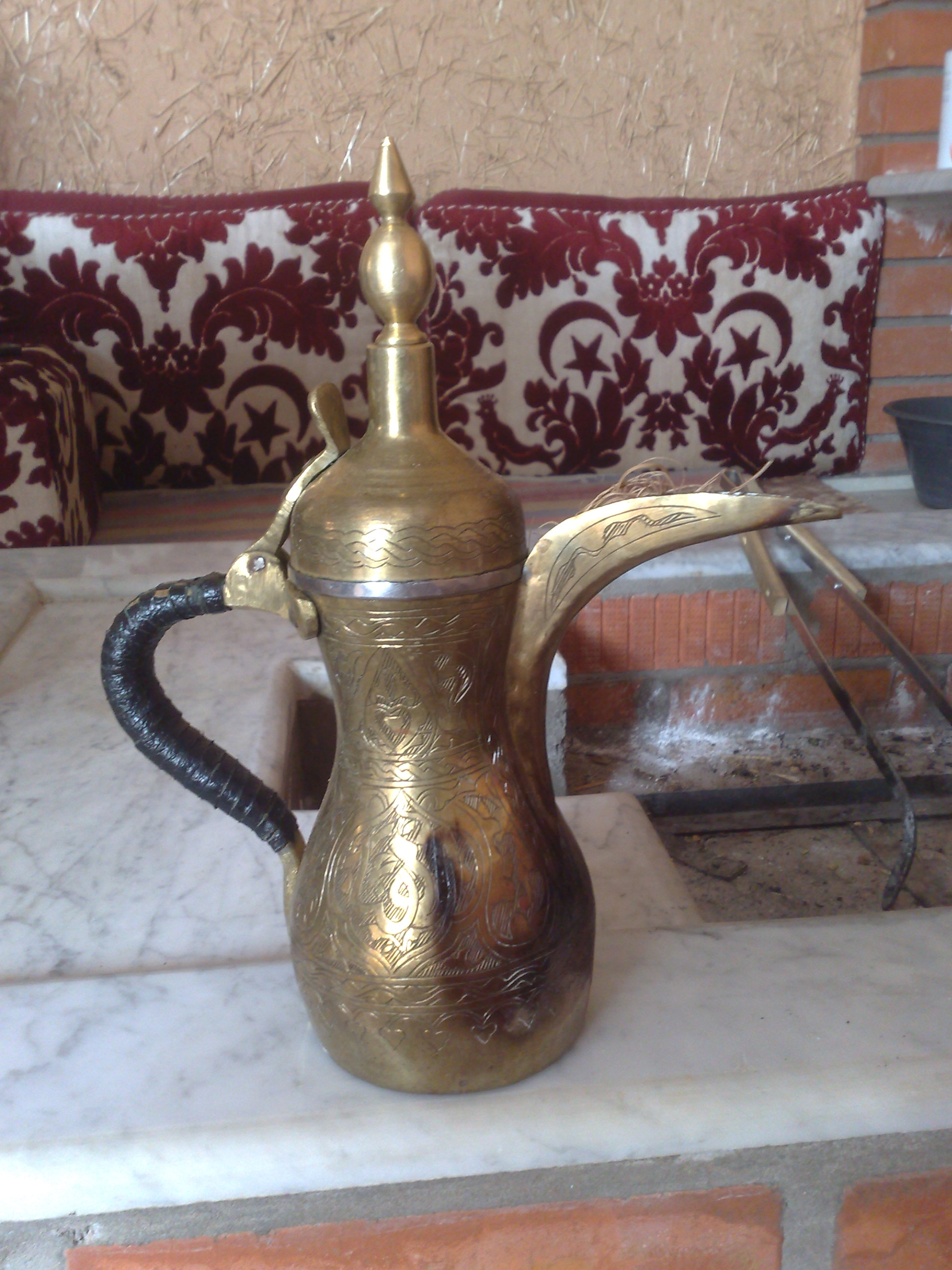 Dallah used to prepare coffee for Arabs